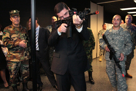 Mr. Gazmend Oketa (center), Minister of Defense, Republic of Albania takes aim on the Virtual Interactive Combat Environment as Brig. Gen. Viktor Berdo (left), Commander, Rapid Reaction Brigade Republic of Albania watches.